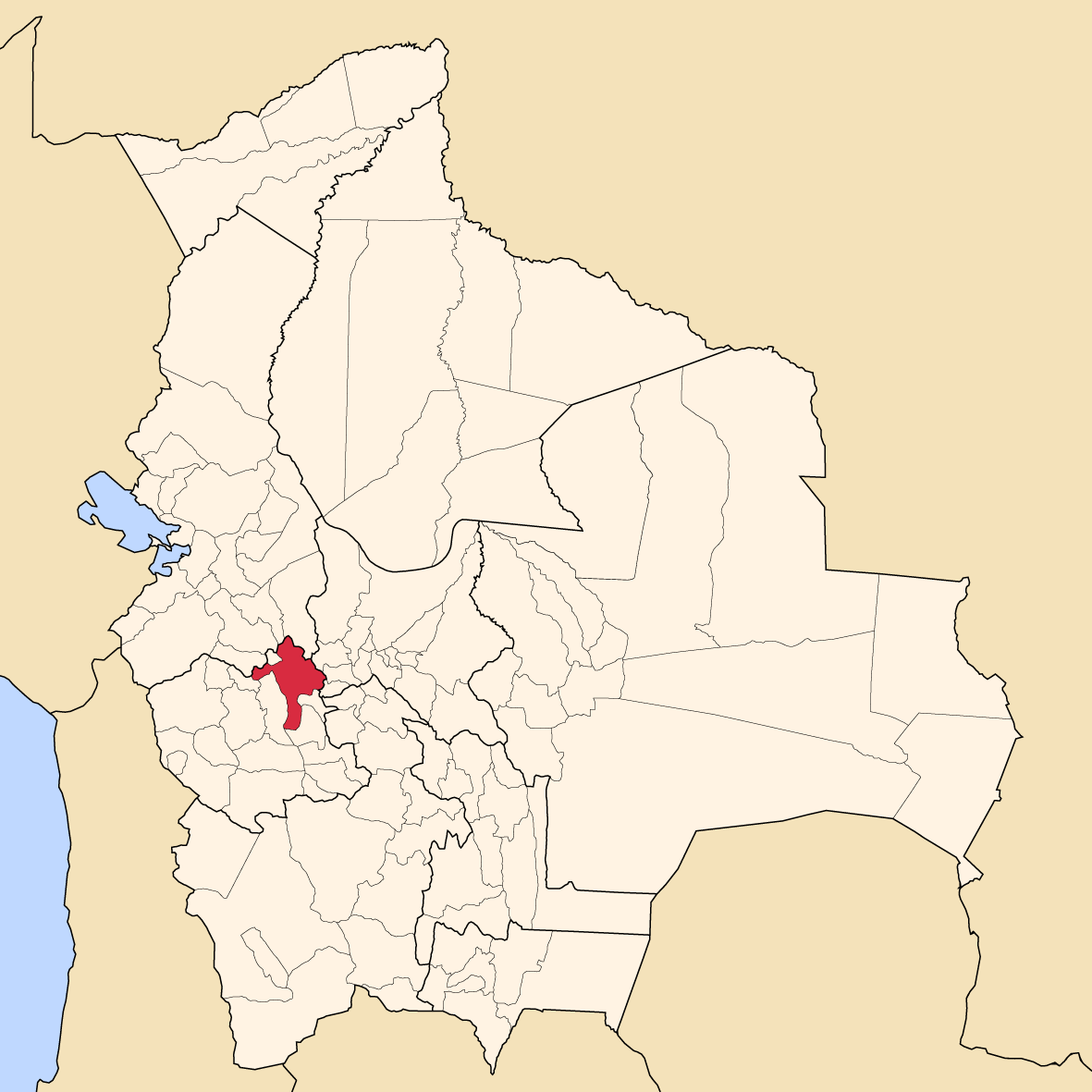 Map of Bolivia showing Cercado province, Oruro